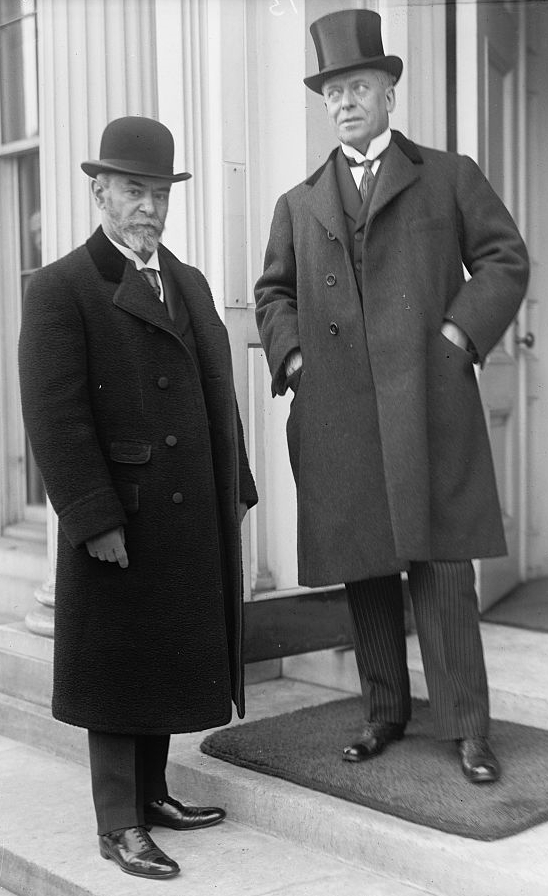 French ambassador and historian Jean Jules Jusserand (1855-1932) (left) with French playwright and journalist Eugène Brieux (1858-1932) (right)